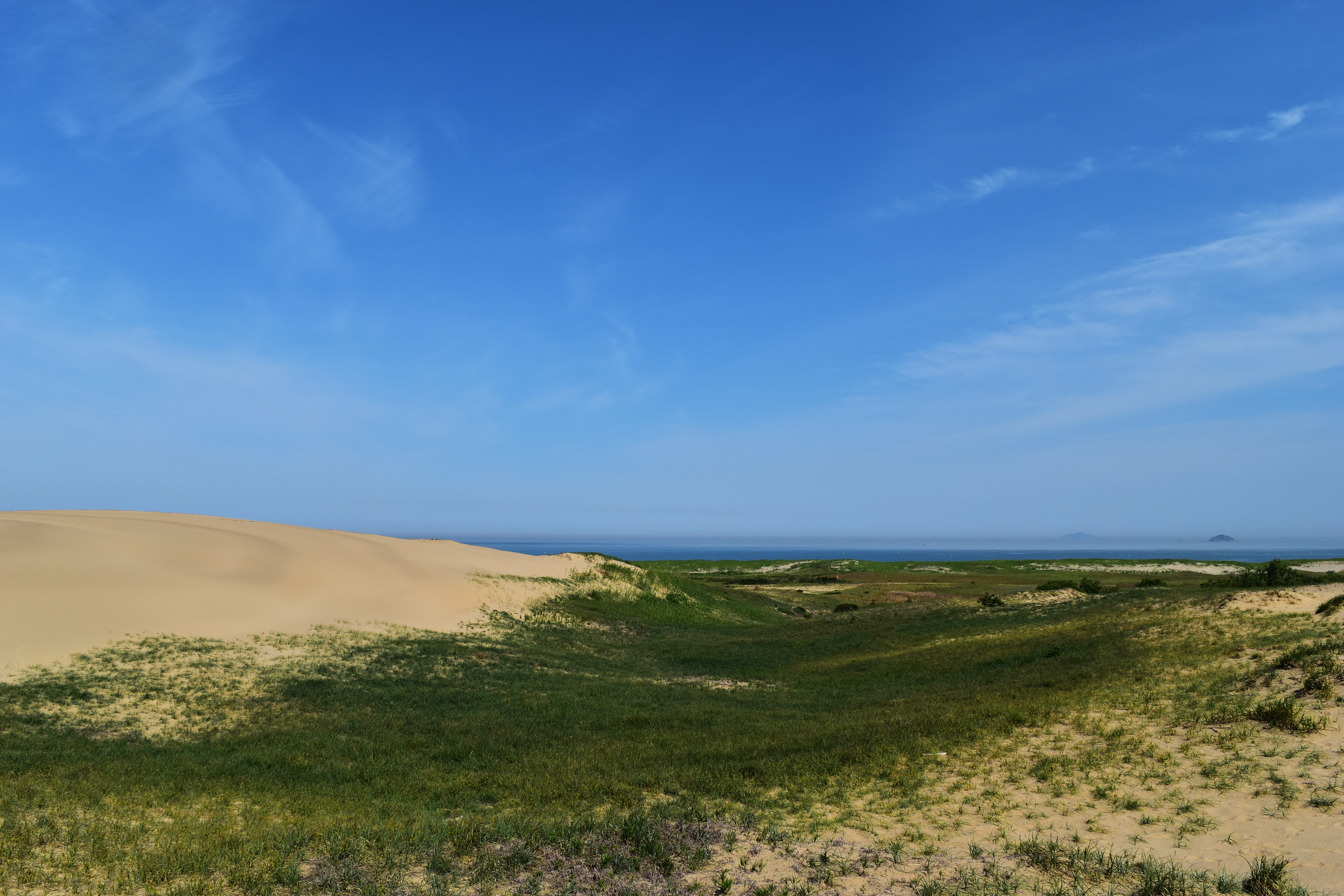 A sight of Sindu sandhill, a natural monuments of South Korea at Taean-gun, Chungcheongnam-do, South Korea